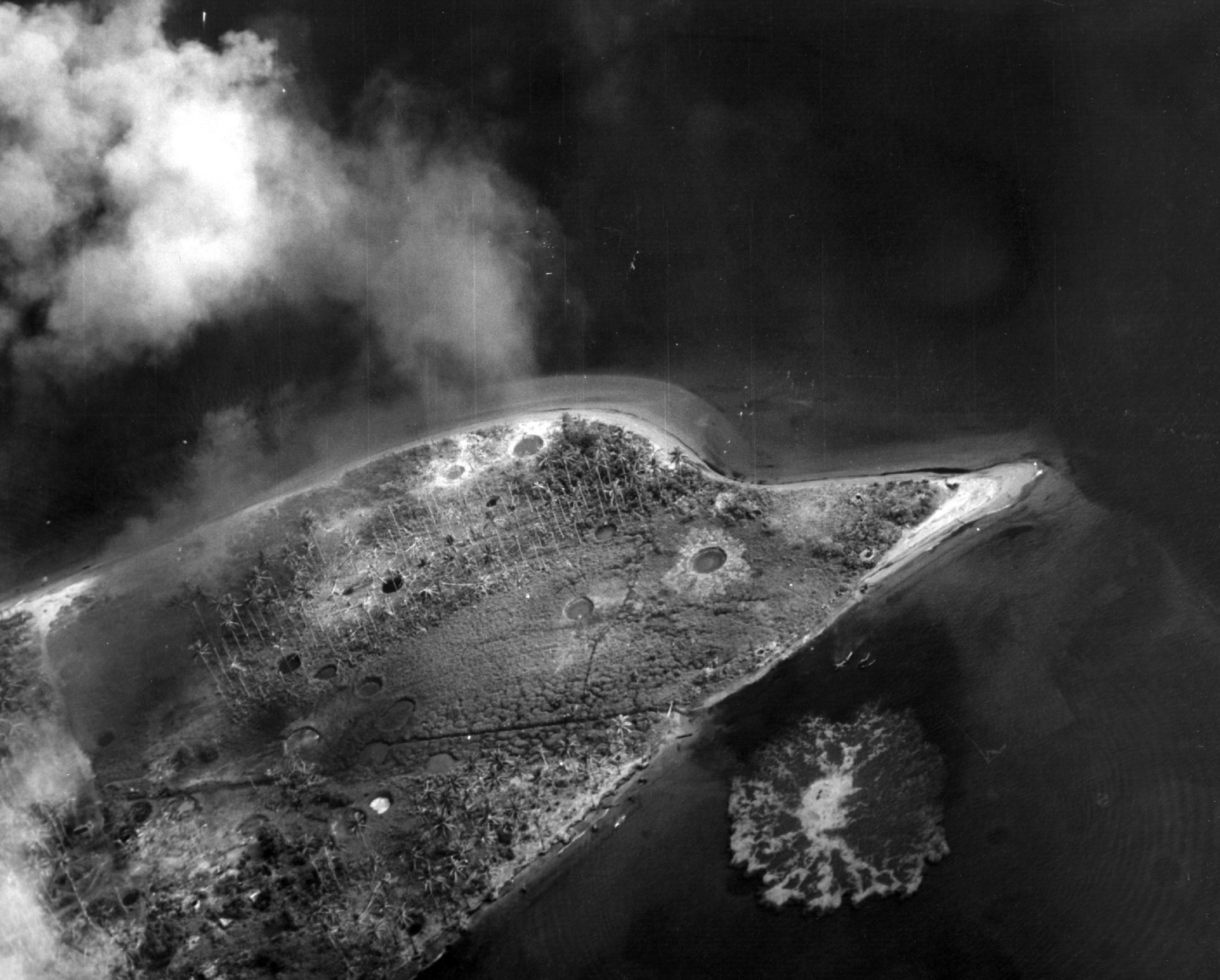 An aerial reconnaissance photograph taken by a U.S. Navy Douglas SBD Dauntless plane during an attack on the Japanese seaplane base at Rekata Bay, Santa Isabel Island, in the Solomon Island chain.